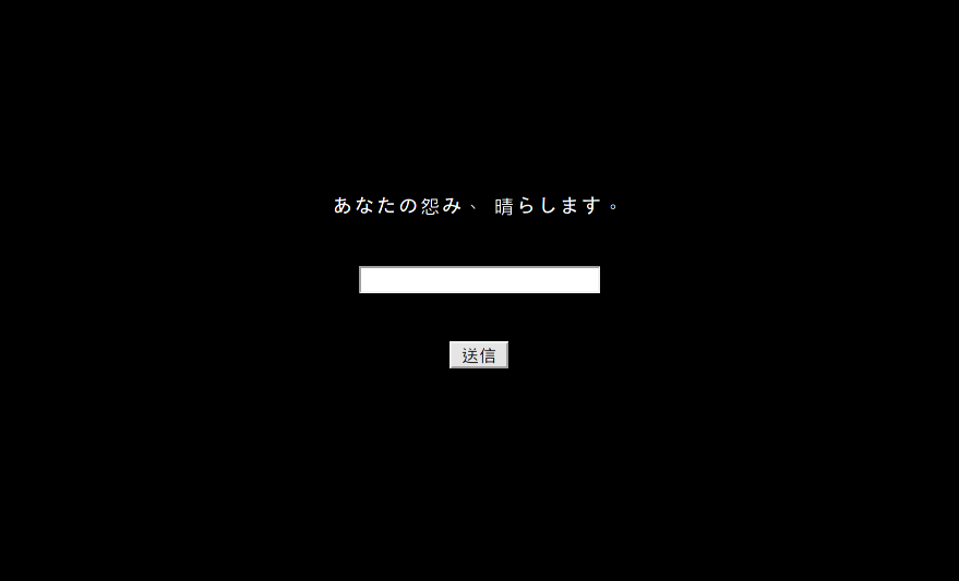 jigokutsuushin (Hell Communication) homepage screenshot.